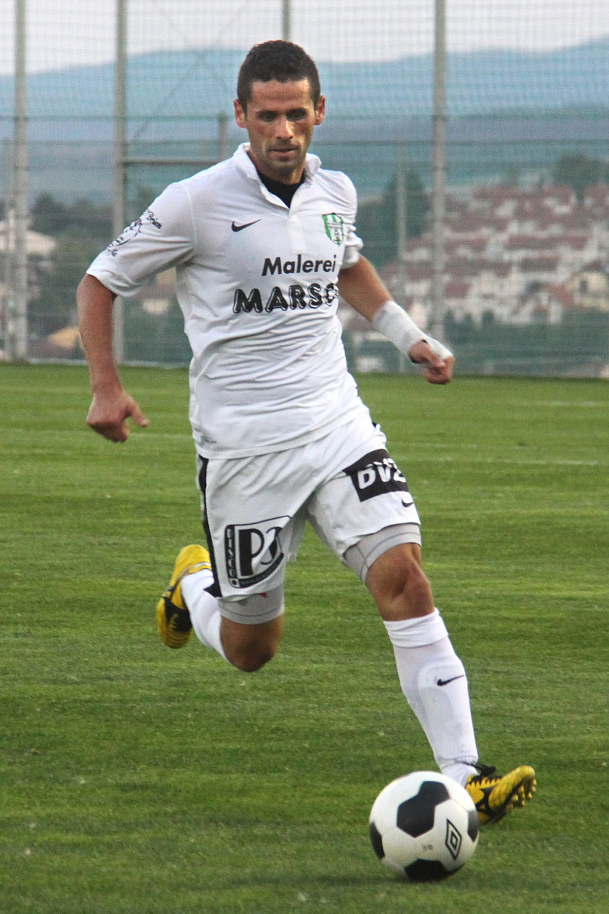 Championship match in the „Regionalliga Ost“ SV Mattersburg II vs. SV Neuberg (1:2) at 2013-09-06. – The photo shows Matija Kristic (SV Neuberg).